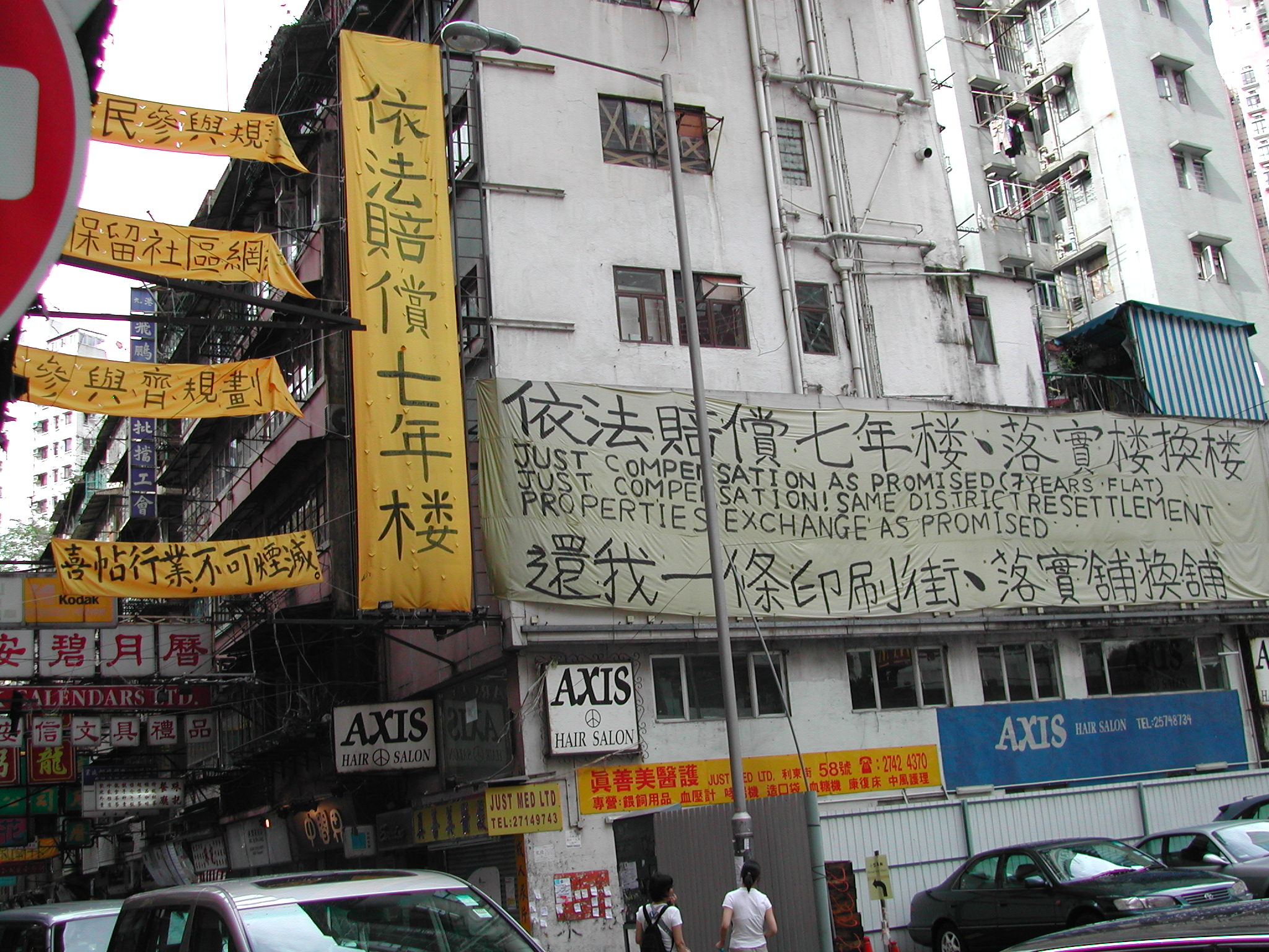 Photoed by Jerry Crimson Mann 19:50, 5 Jun 2005 (UTC).